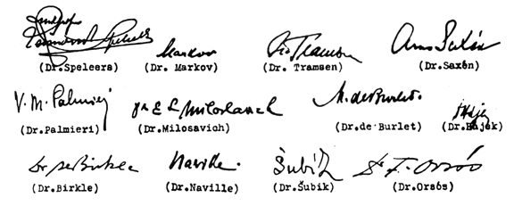 International Katyn Commission Findings. Der Massenmord in Walde von Katyn Ein Tatsachenbericht (the Mass-Murder in the Katyn Forest, a Documentary Account of Evidence). Germany, 1943. Signatures of the commission: Marko Markow, Reimond Speleers, Herman Maximilien de Burlet, František Šubík, Helge Tramsen, Arno Saxén, Vincenzo Mario Palmieri, Eduard Miloslavić, Alexandru Birkle, Ferenc Orsós, François Naville, Andrej Žarnov, František Hájek